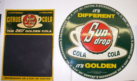 Sun-Drop signs from the 1950's